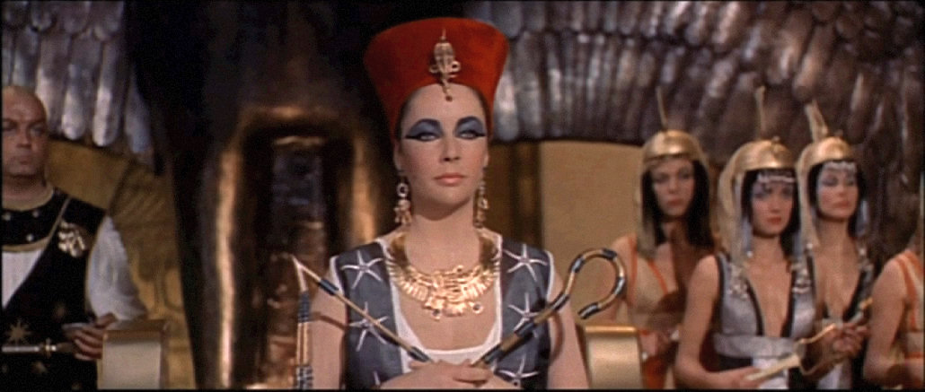 Cropped screenshot of Elizabeth Taylor from the trailer for the film Cleopatra.